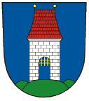 Municipal coat of arms of Dřevohostice market town, Přerov District, Czech Republic.